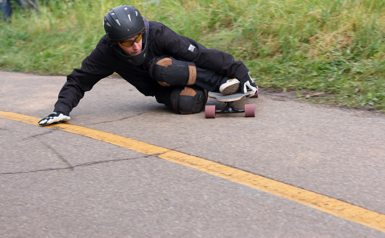 Downhill longboarding example picture